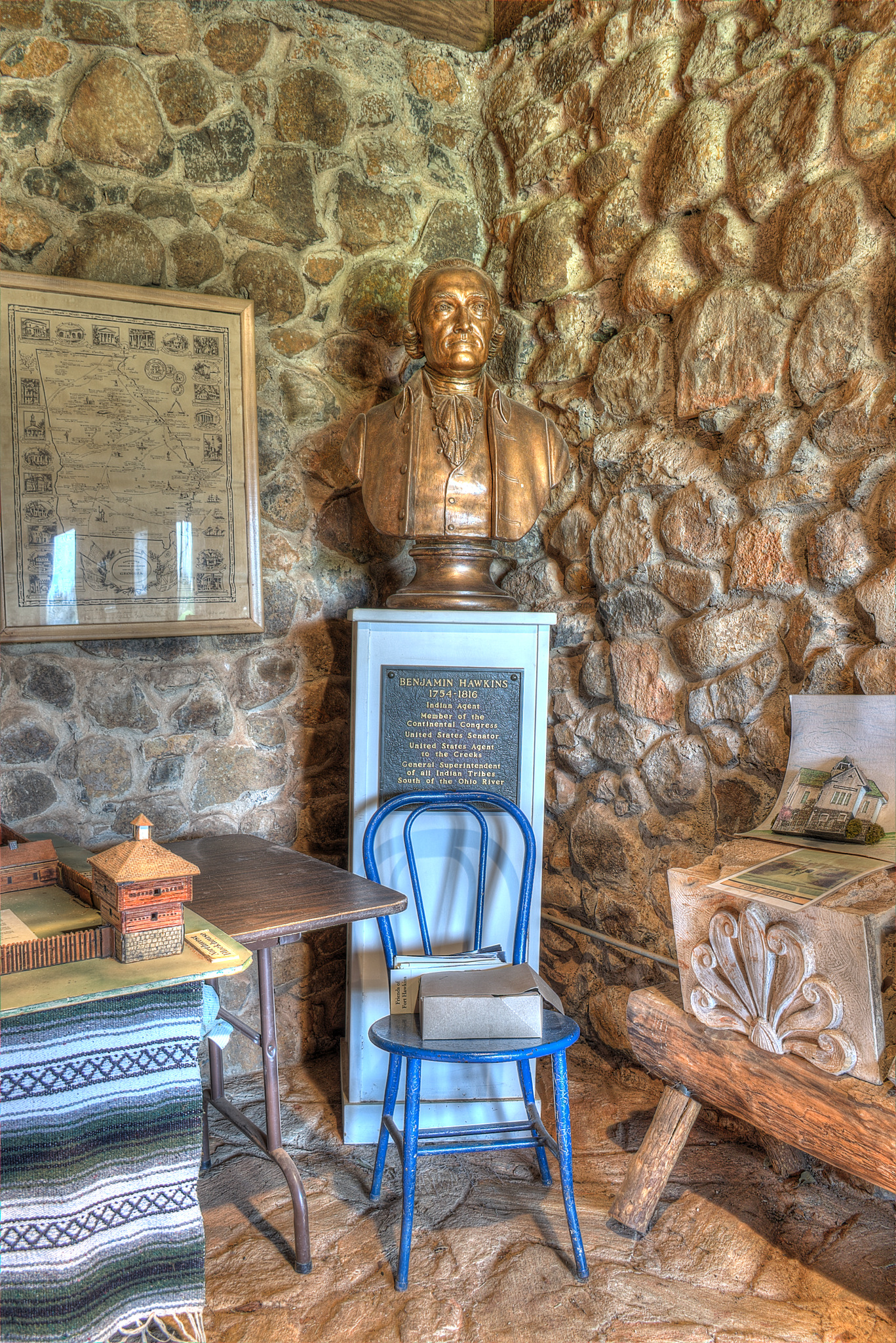 Benjamin Hawkins (1754-1818) at Fort Hawkins in Macon, GA